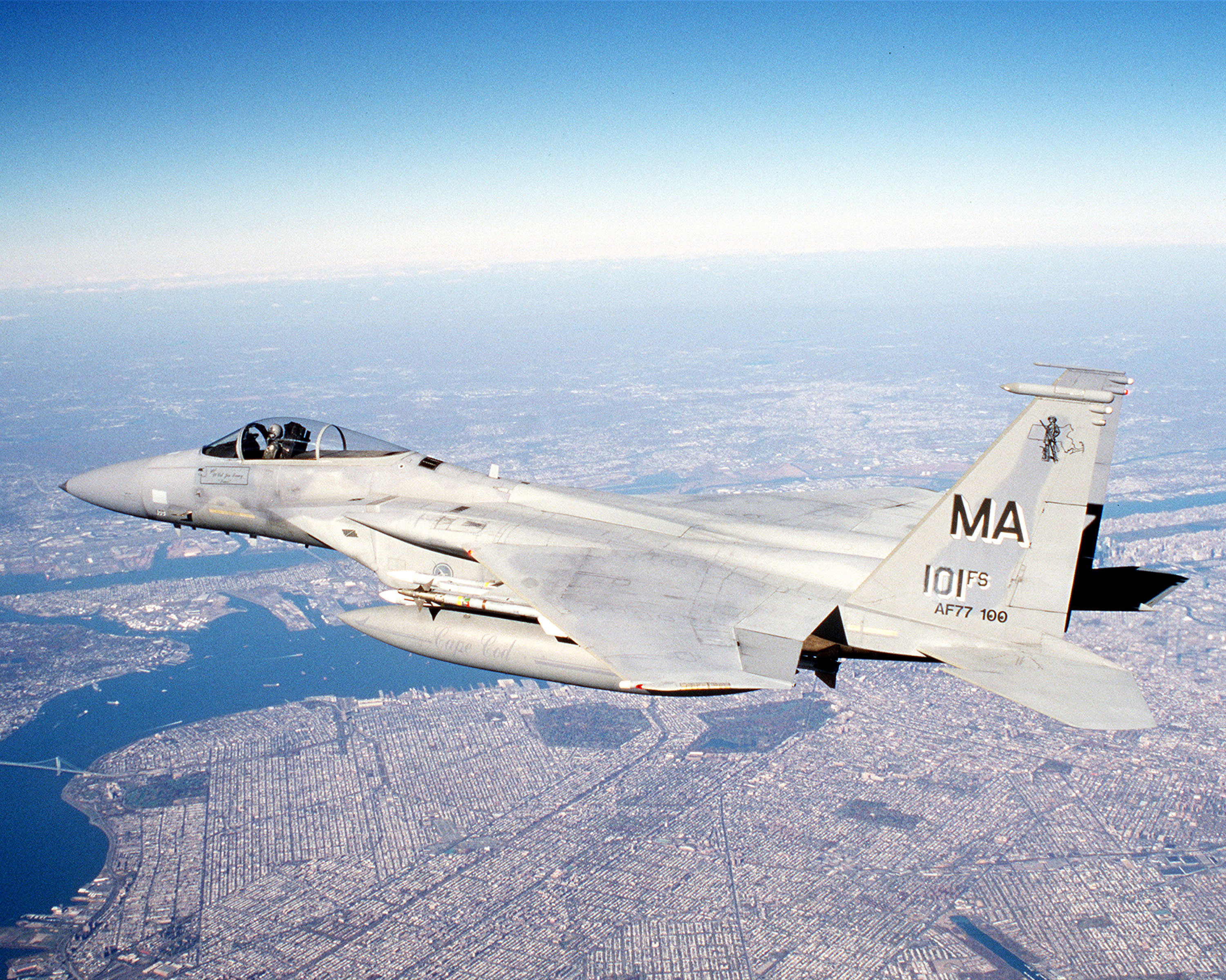 OPERATION NOBLE EAGLE -- An F-15 Eagle from the Massachusetts Air National Guard’s 102nd Fighter Wing flies a combat air patrol mission over New York City in support of Operation Noble Eagle. More than 30,000 people in the ANG and Air Force Reserve have been called to active duty to support Operations Noble Eagle and Enduring Freedom.